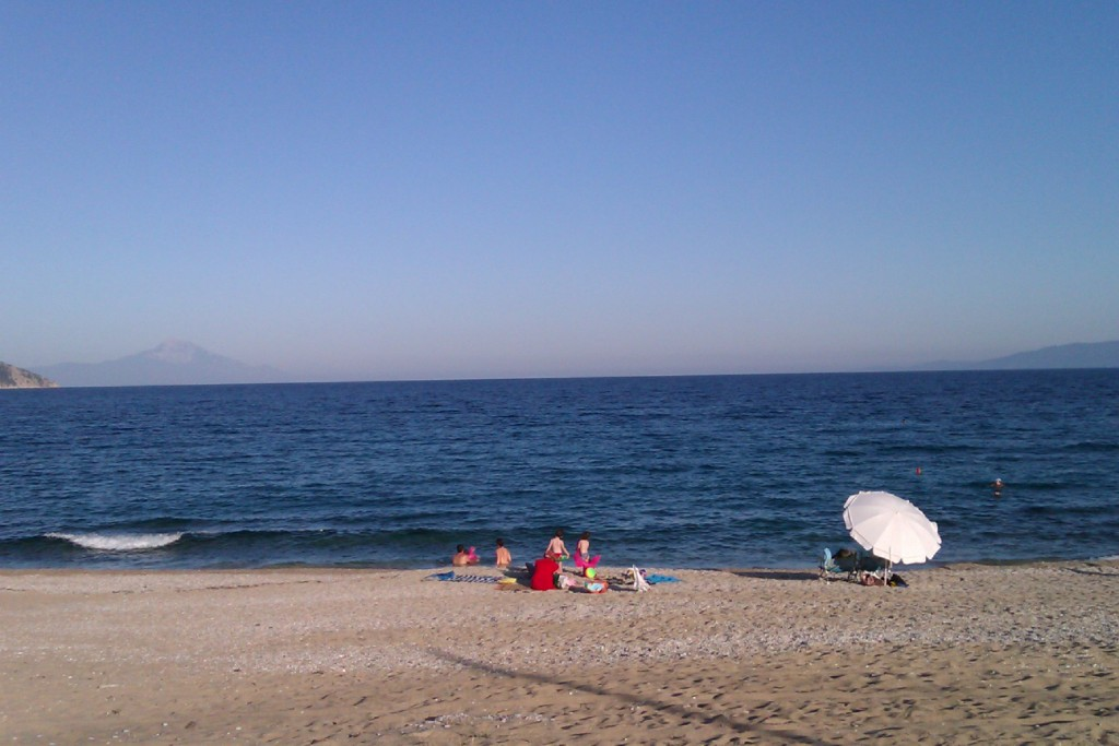 Campos beach of Pyrgadikia in Chalkidice, Macedonia